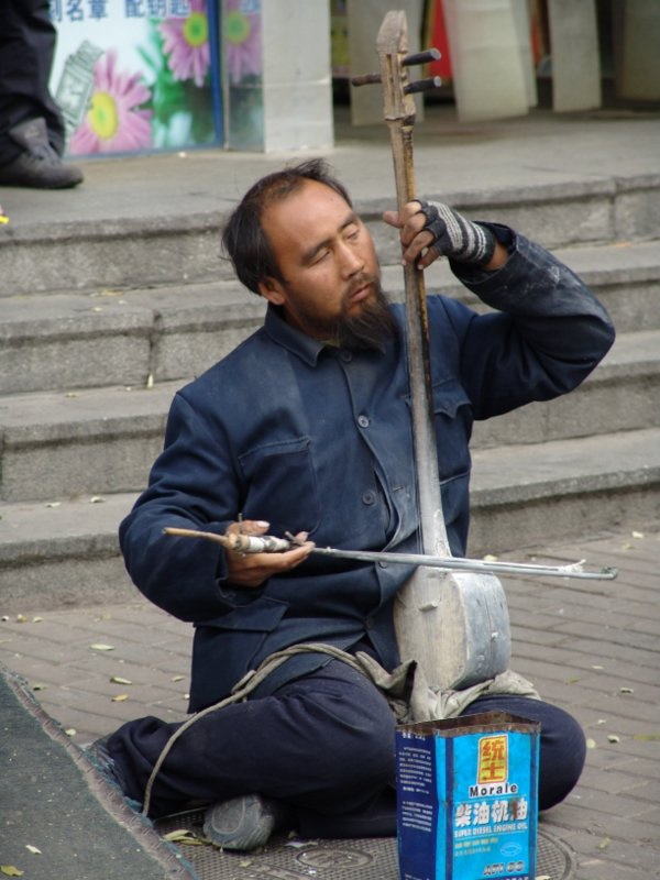 Beijing street musician